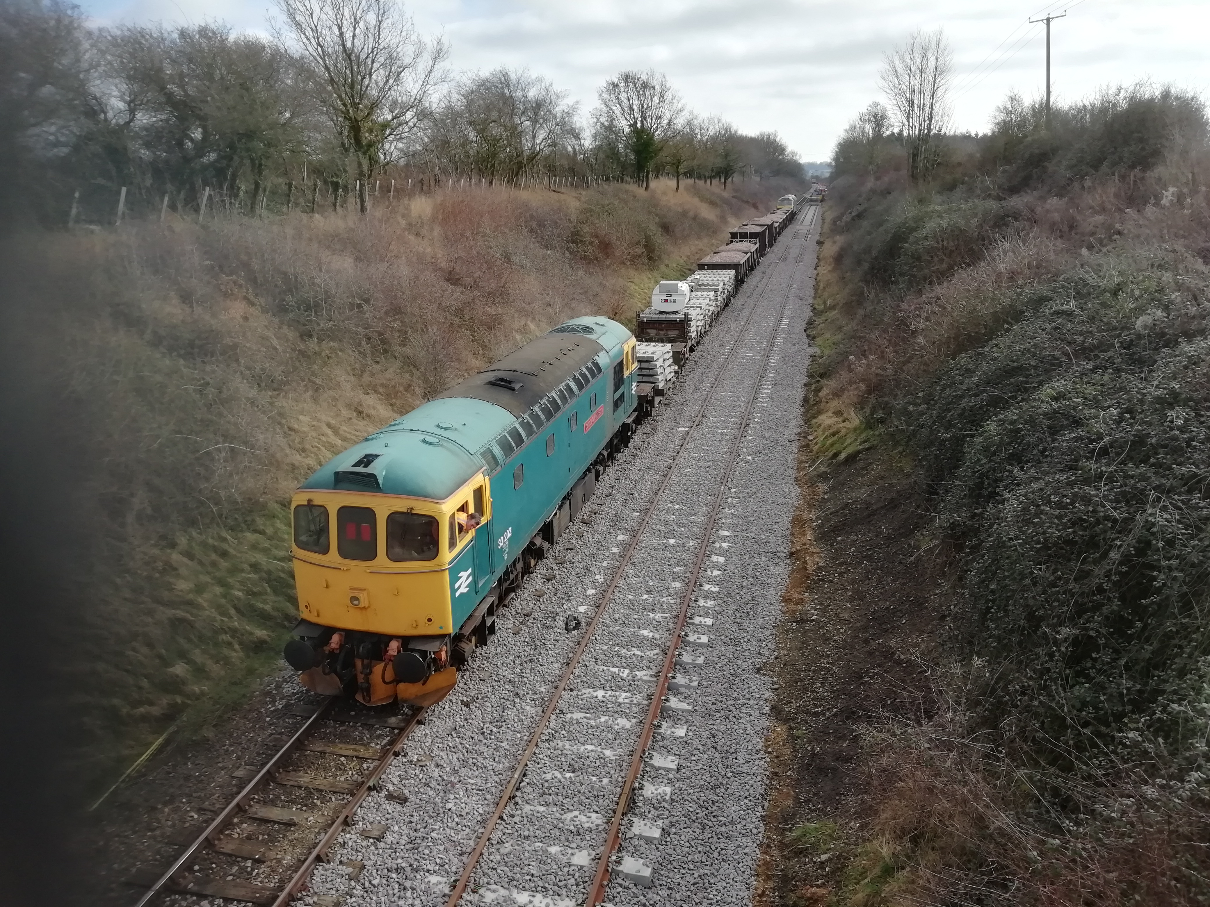 A Class 33 (and 47) are seen on an infrastructure works train during the relaying of the down line over Danemoor Bank.